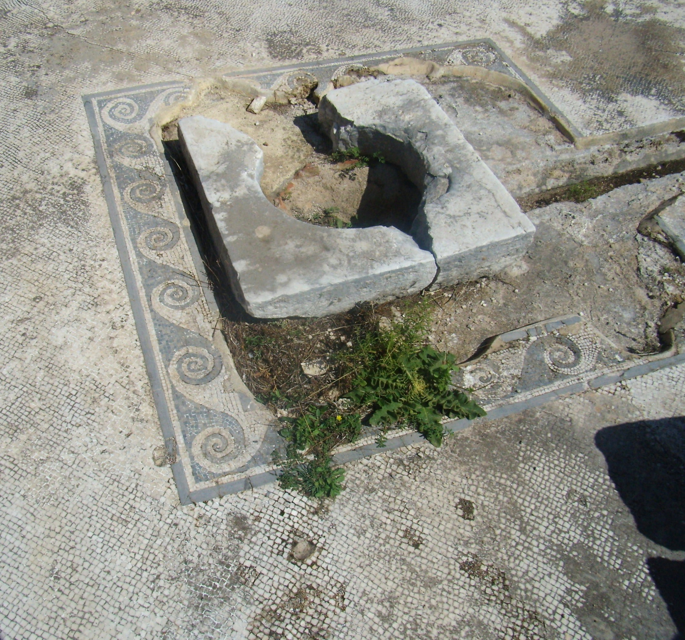 Solunto, Casa di Leda, mosaic in the middle of Peristyl